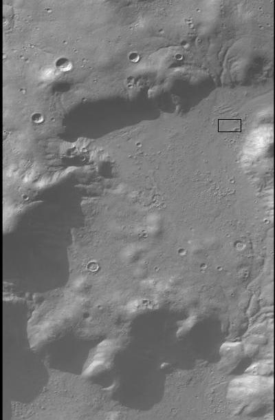 CTX context image for fault. Location is near to 38.7 S and 310.3 E.